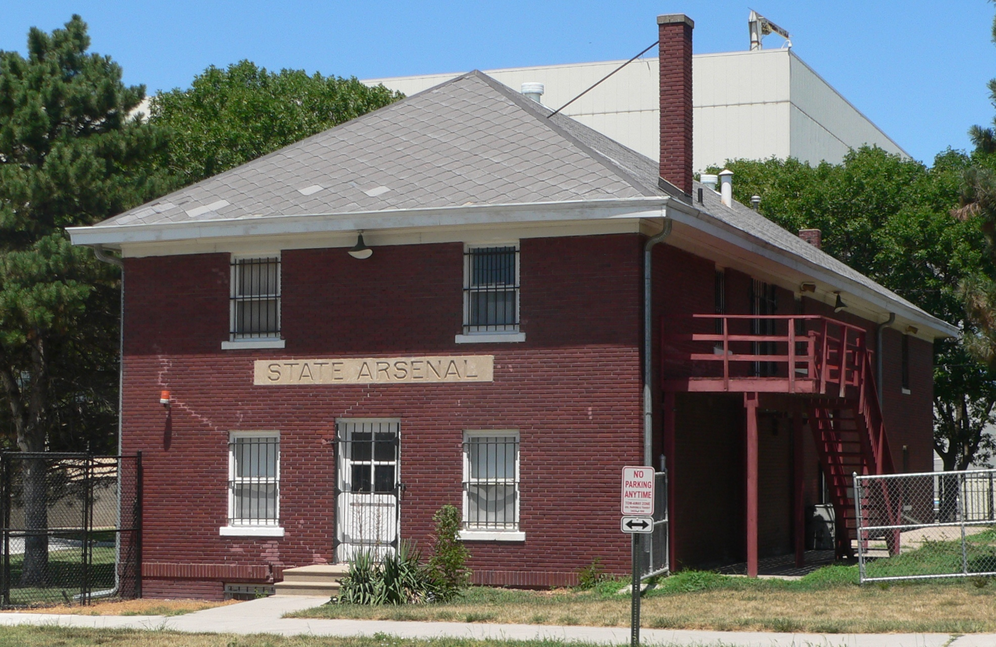 State Arsenal, located on Court Street in former Nebraska State Fairgrounds in Lincoln, Nebraska; seen from the southeast.